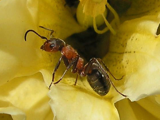 An ant patrolling a flower. Photo taken by Jens Buurgaard Nielsen in the French Pyrenees, 2005